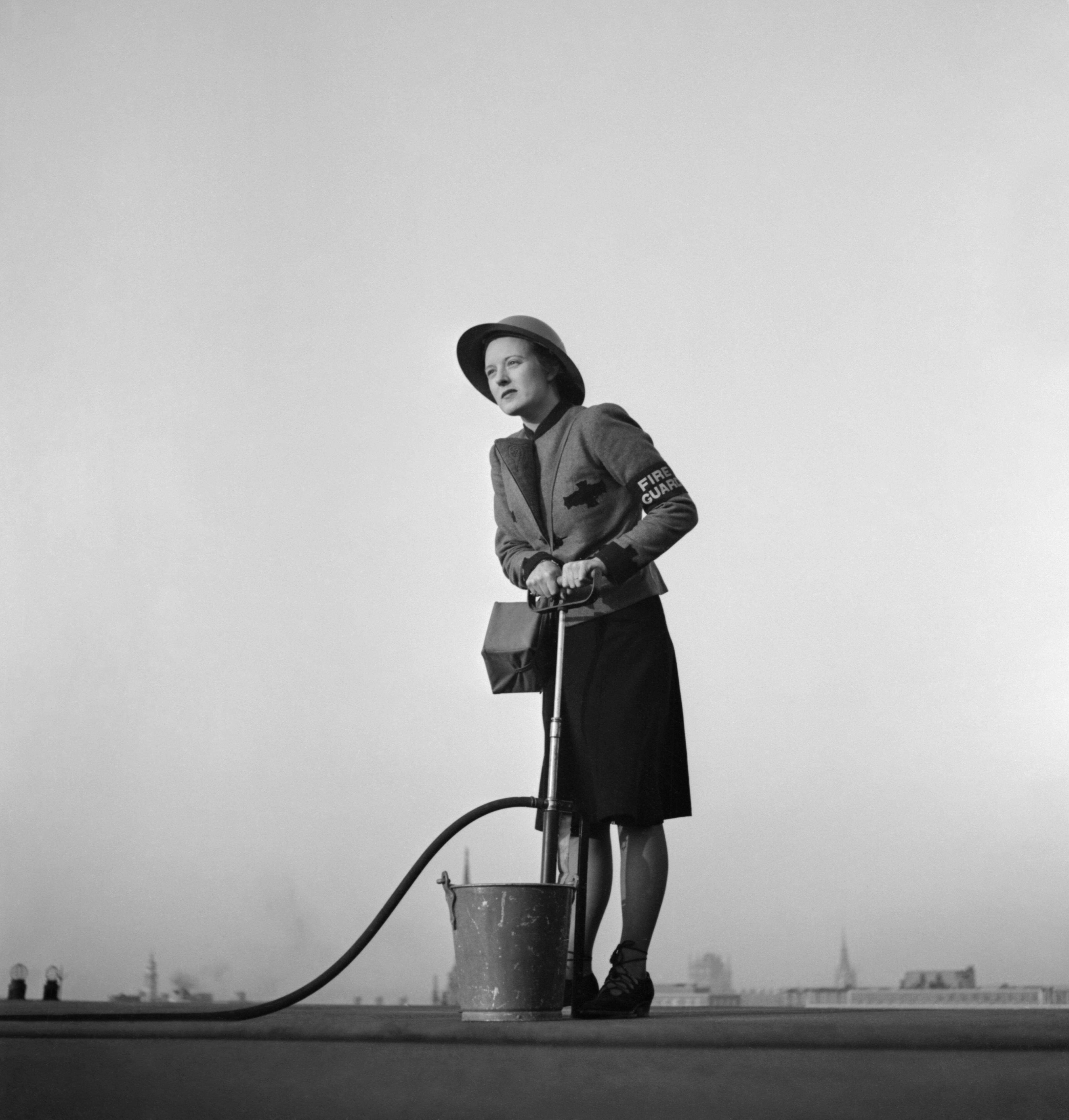 A female Fire Guard using a stirrup pump on the roof of a building in London, 1941. A striking portrait of a female member of the Fire Guard using a stirrup pump. She is clearly on a roof (perhaps of Senate House in London, the Ministry of Information headquarters) and the skyline of the city can just be seen in the background. She is wearing her Fire Guard armband and a steel helmet, and carries her gas mask. This photograph was probably taken in October 1941.